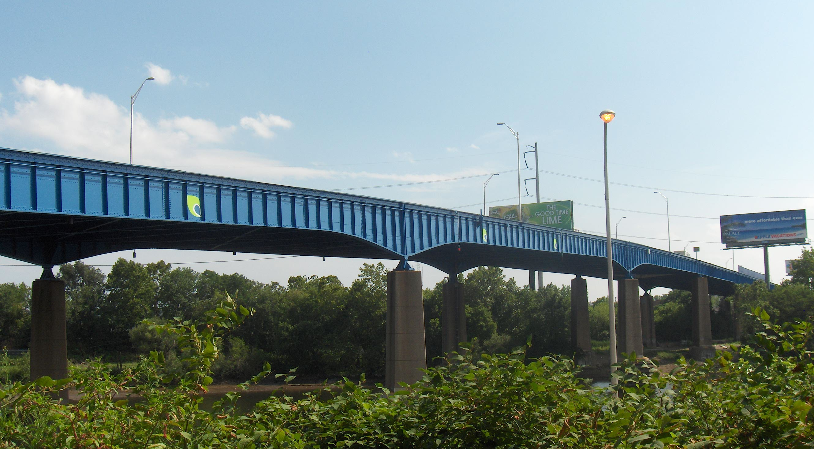 Schuylkill Expressway Bridge, built 1956, reconstructed 2010, carries I-76 (Schuylkill Expressway) over the Schuylkill River in Philadelphia, Pennsylvania. View from the University Avenue ramp to I-76 northbound, looking southeast